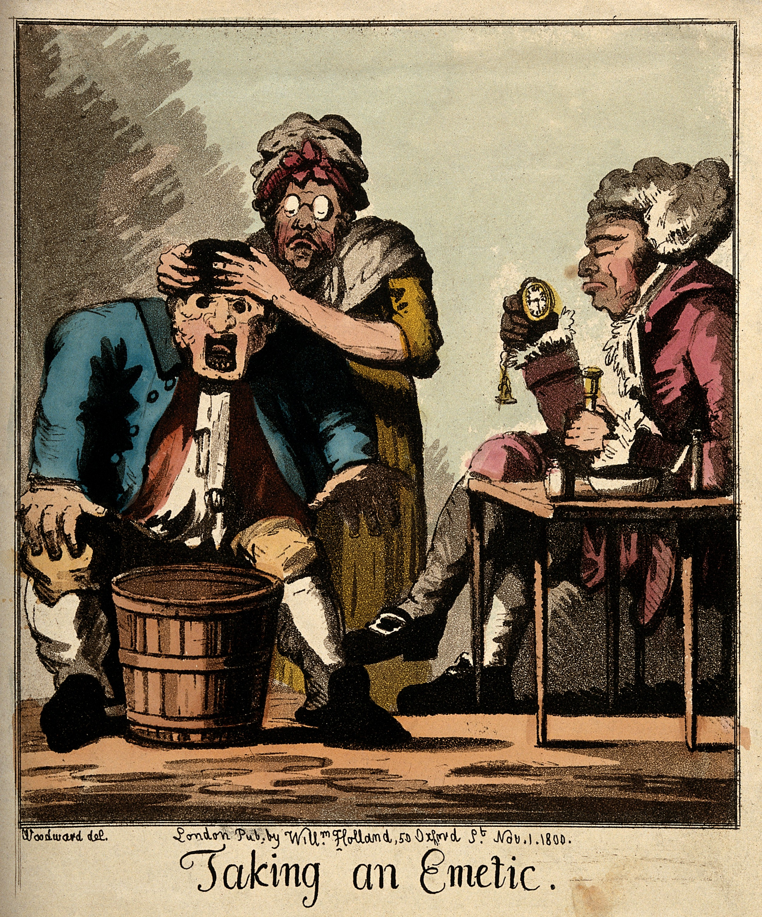 A doctor waiting for his patient to vomit after administering an emetic. Coloured aquatint by G.M. Woodward, 1800. Iconographic Collections Keywords: Emetics; SATIRE; George Moutard Woodward; EMETIC